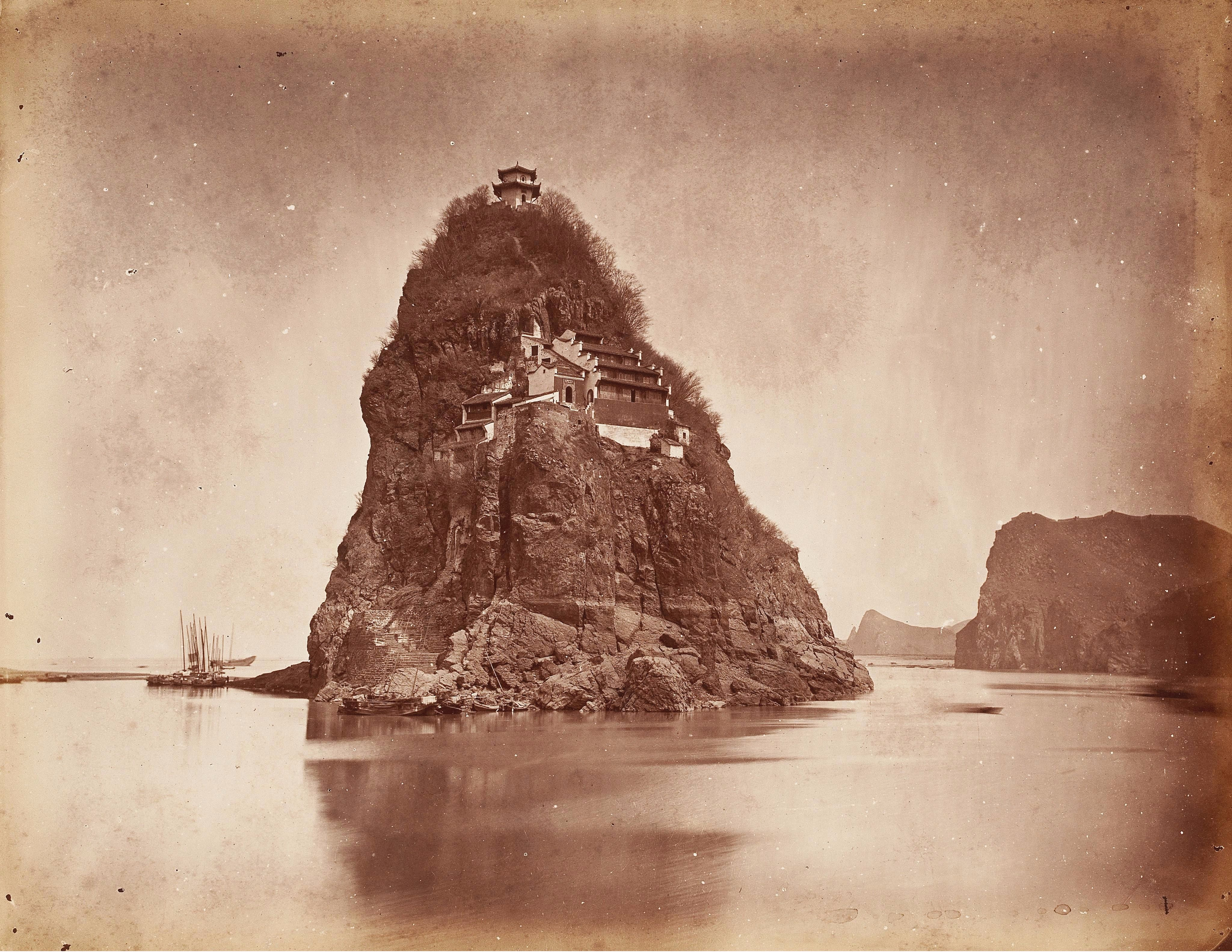 Albumen print of Little Orphan Island, Yangtze, China